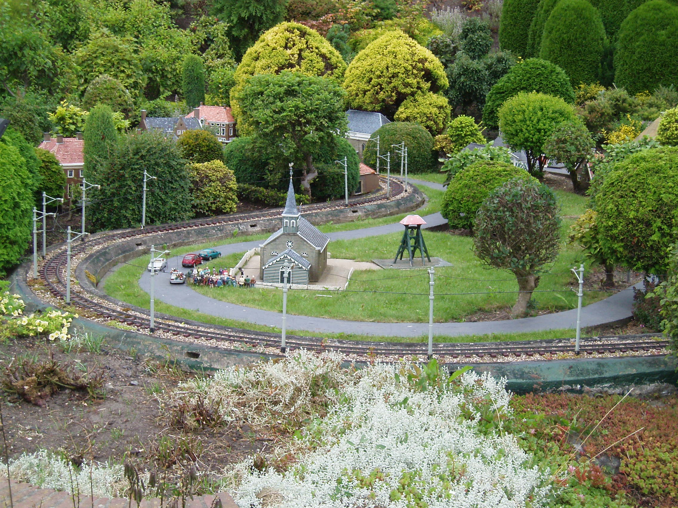 Madurodam in the Hague in the Netherlands